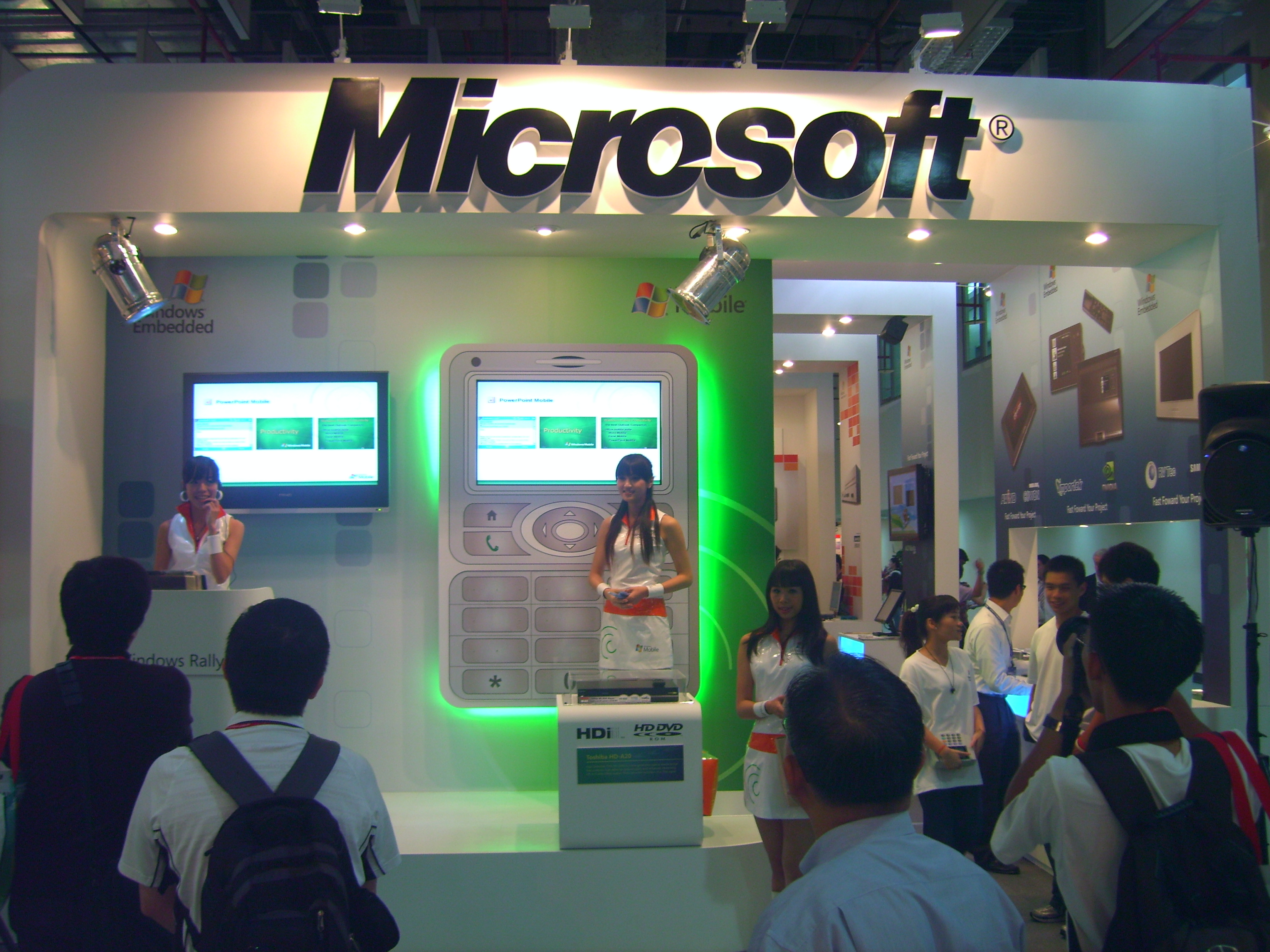 Computex Taipei 2007: Booth activity of Microsoft.